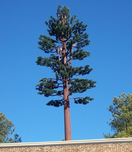 Communications antenna camouflaged as a tree.